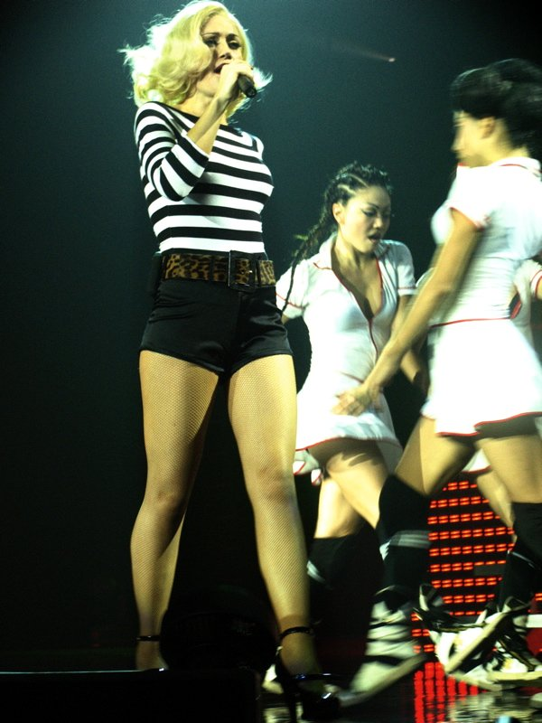 Gwen Stefani performing "Serious" in Duluth, Georgia, United Statesfierce